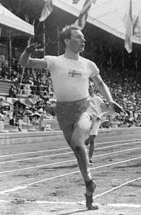 Knut Lindberg (centre) of Sweden winning the eighth heat in the 100 Metres event during the 1912 Olympic Games in Stockholm, Sweden.